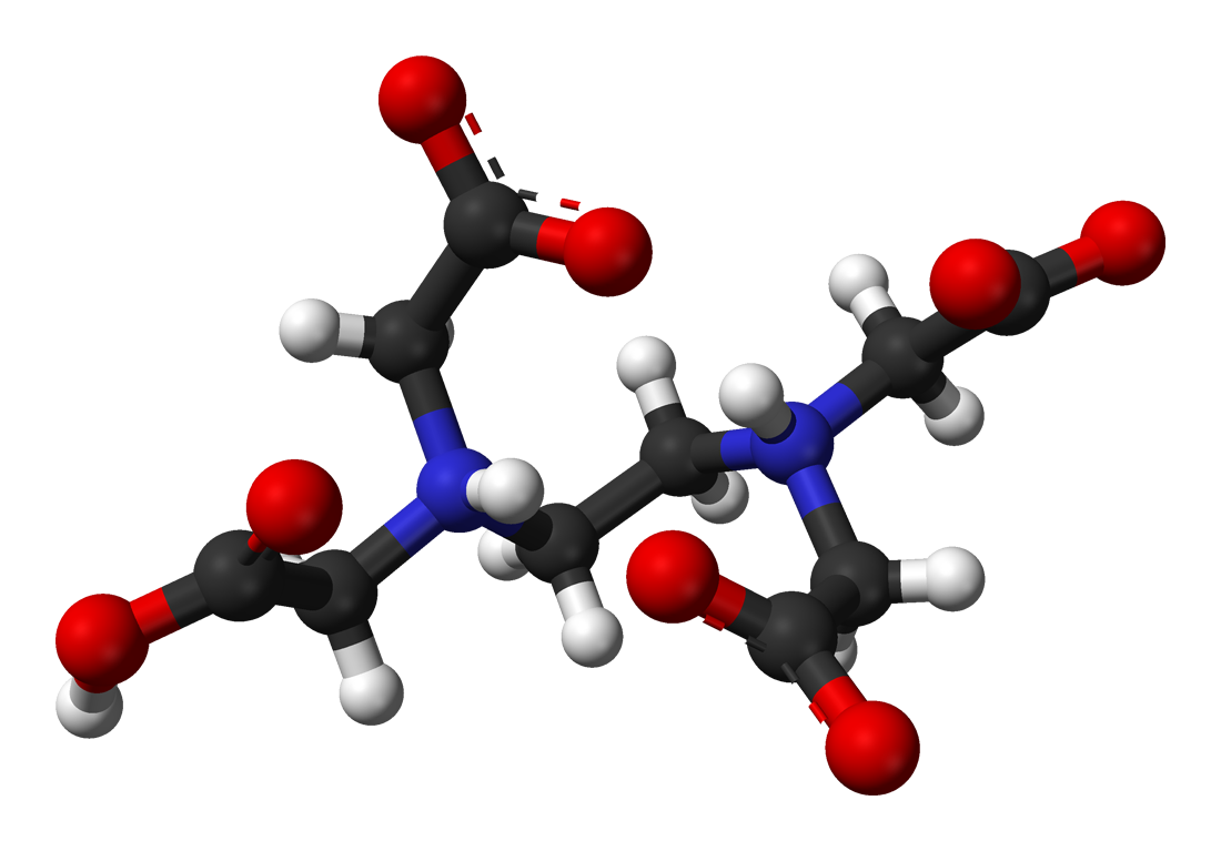 Ball-and-stick model of the zwitterionic EDTA molecule, as found in the crystalline β form. X-ray diffraction data from M. Cotrait (1972). "La structure cristalline de l'acide éthylènediamine tétraacétique, EDTA". Acta Crystallographica Section B 28: 781-785. Gray spheres represent carbon atoms, white hydrogen, red oxygen, and blue nitrogen.